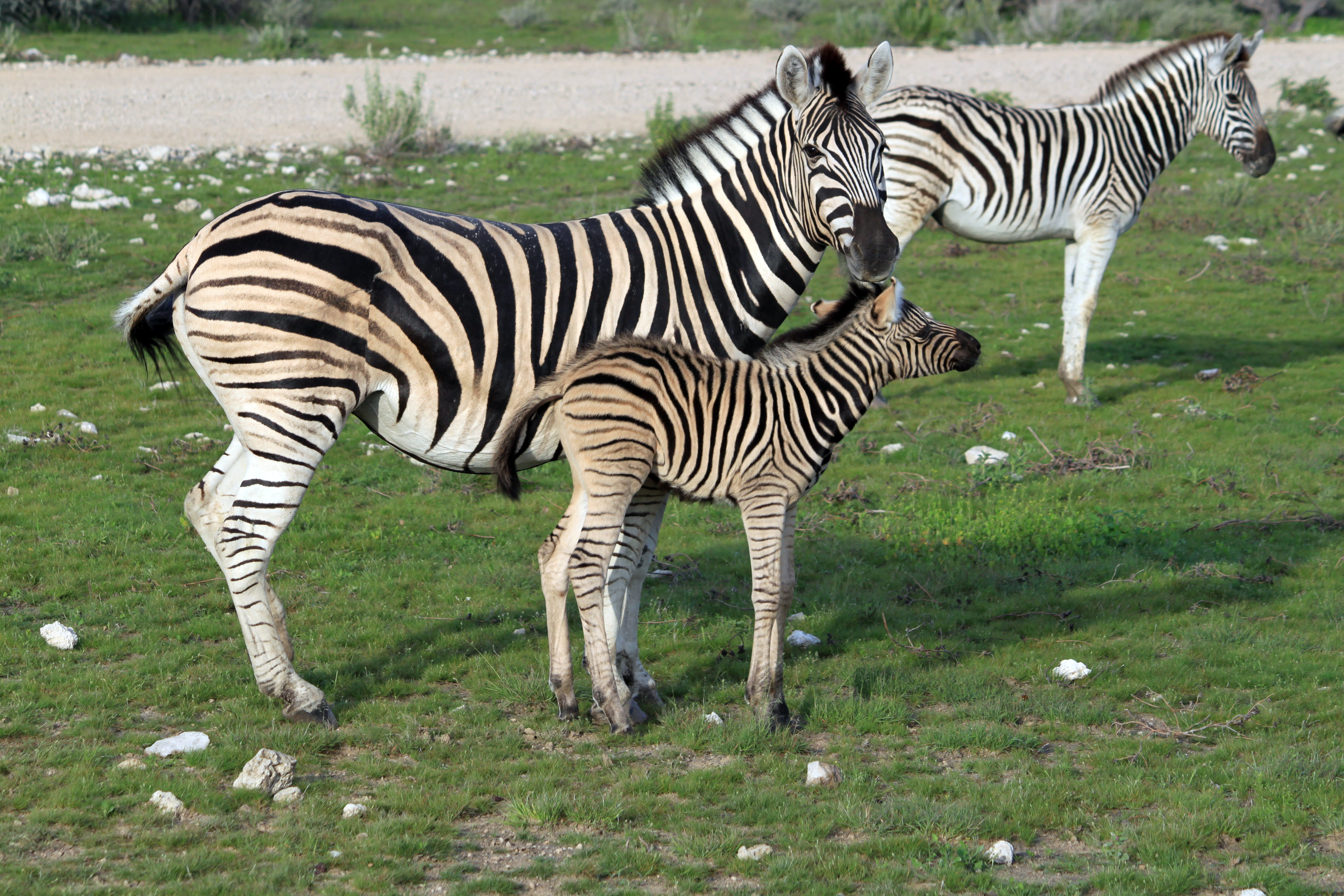 Plains Zebras in Etosha National Park, Namibia (Equus quagga burchellii)